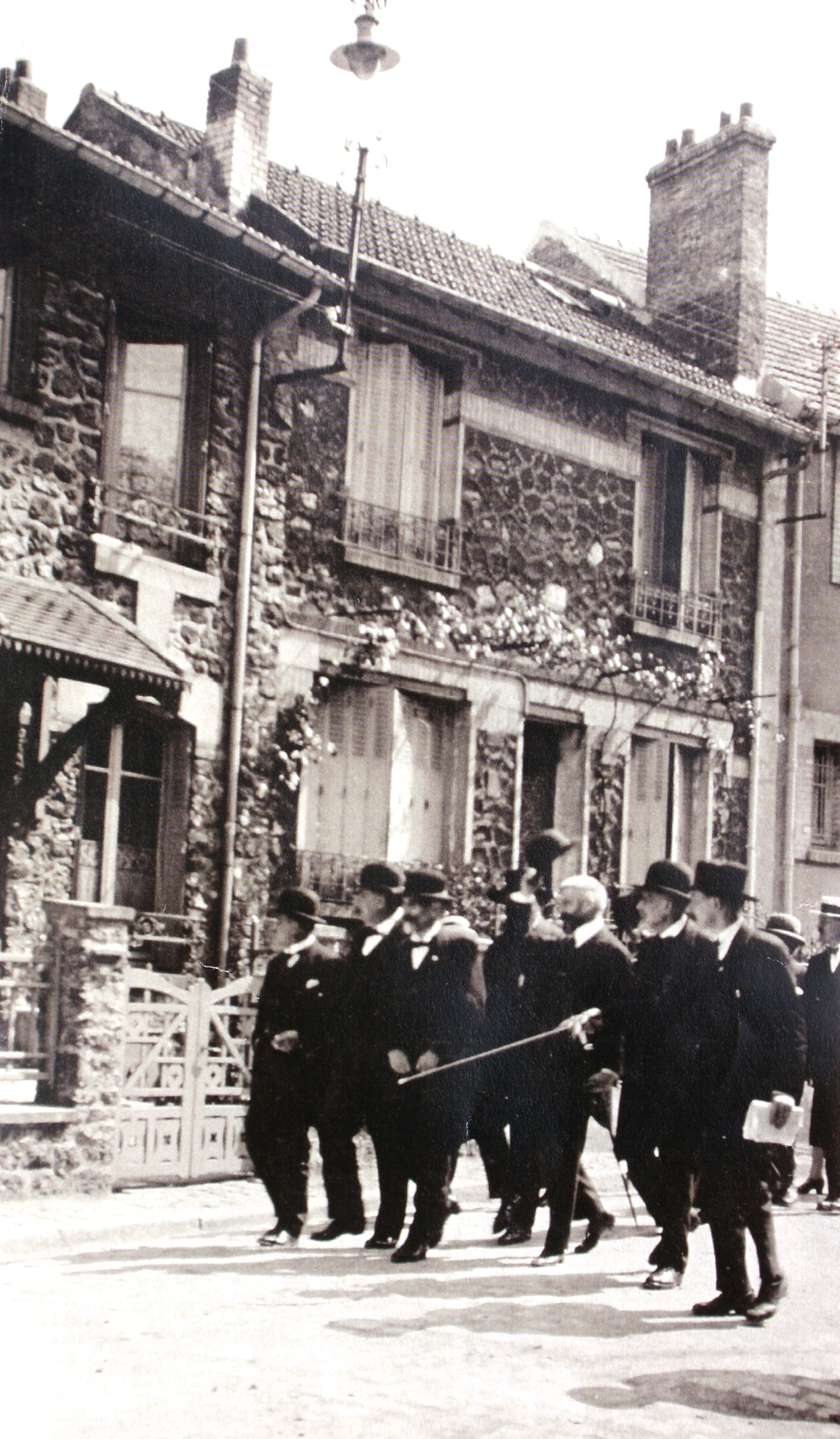 Opening of the quarter "La Campagne à Paris", 1926